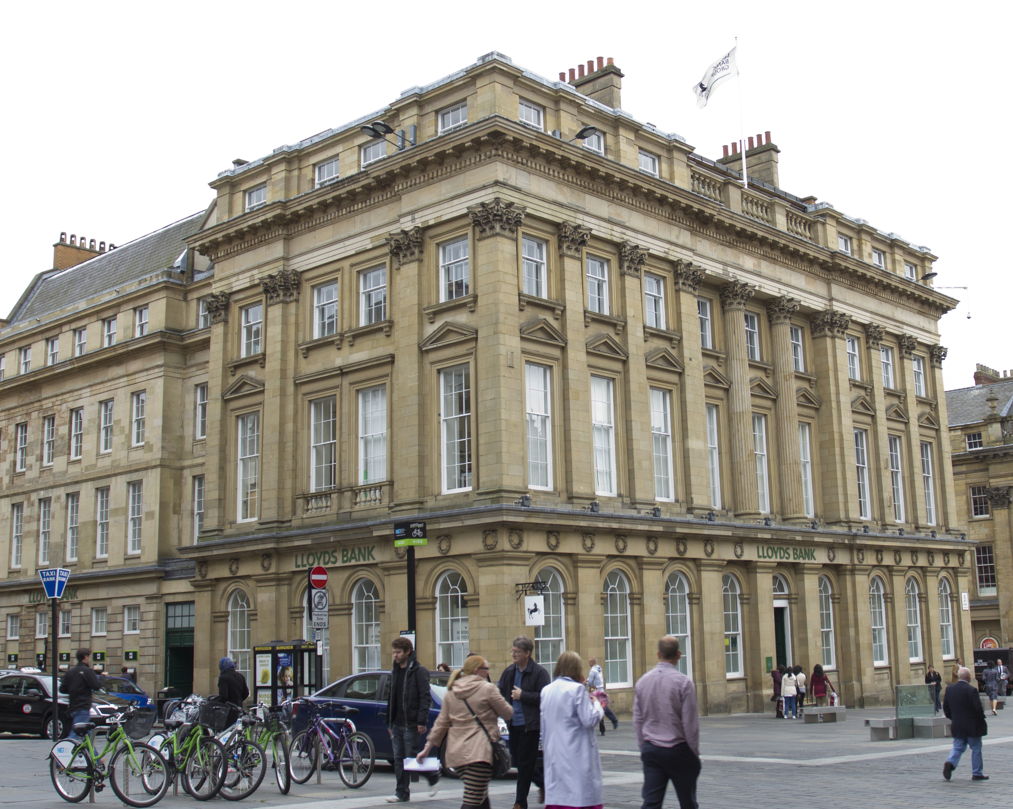 Lloyds Bank Newcastle upon Tyne Monument following the Lloyds-TSB to Lloyds Bank re-branding in September 2013